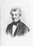 very old photo